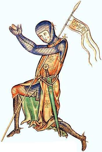 praying Crusader